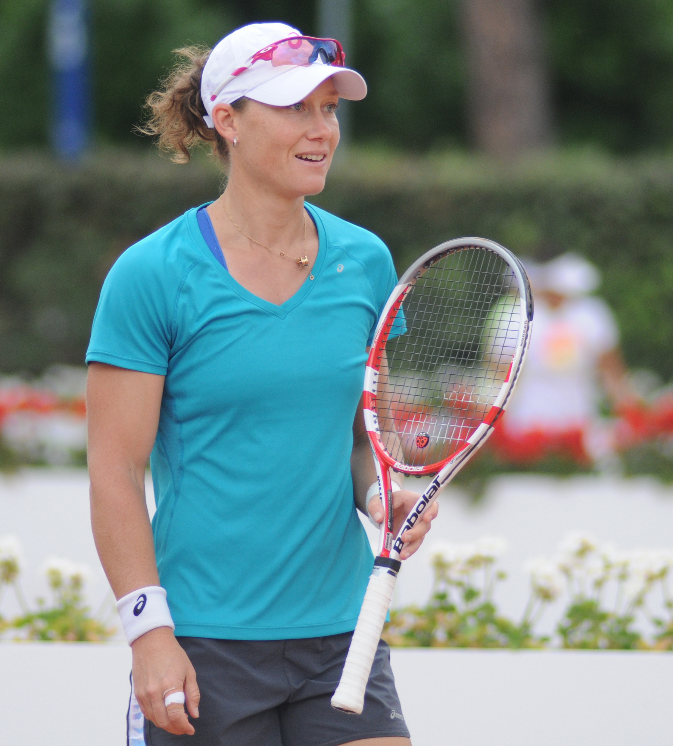 Samantha Stosur at the 2014 Internazionali BNL d'Italia